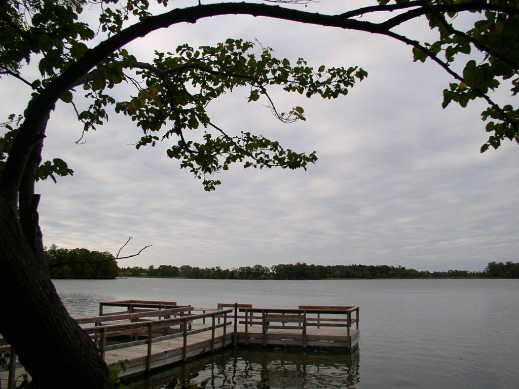 Fishing pier of public water access, Greenleaf Lake, Meeker County, Minnesota, USA.